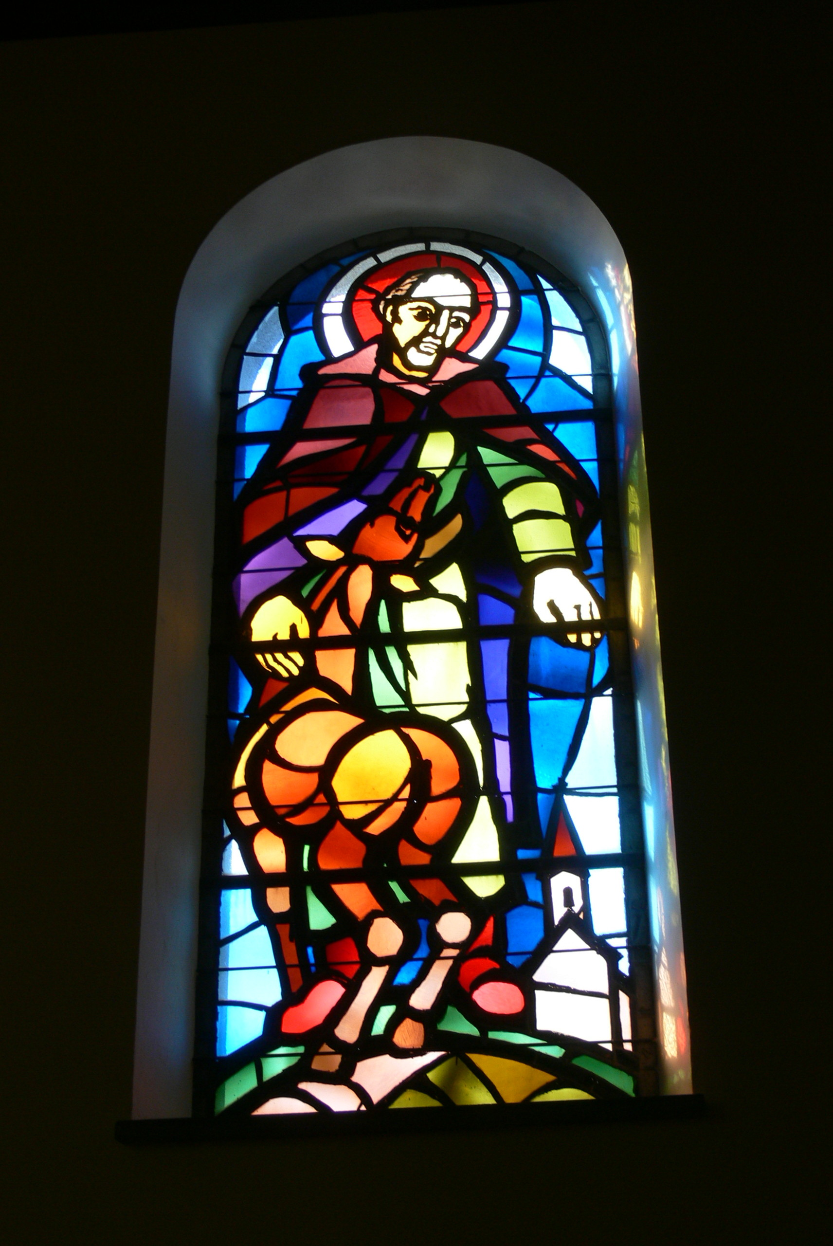 Saint Giles parish church in Oberkappel ( Upper Austria ). Stained glass window ( 1956 ) by Hans Plank - Saint Giles with church.